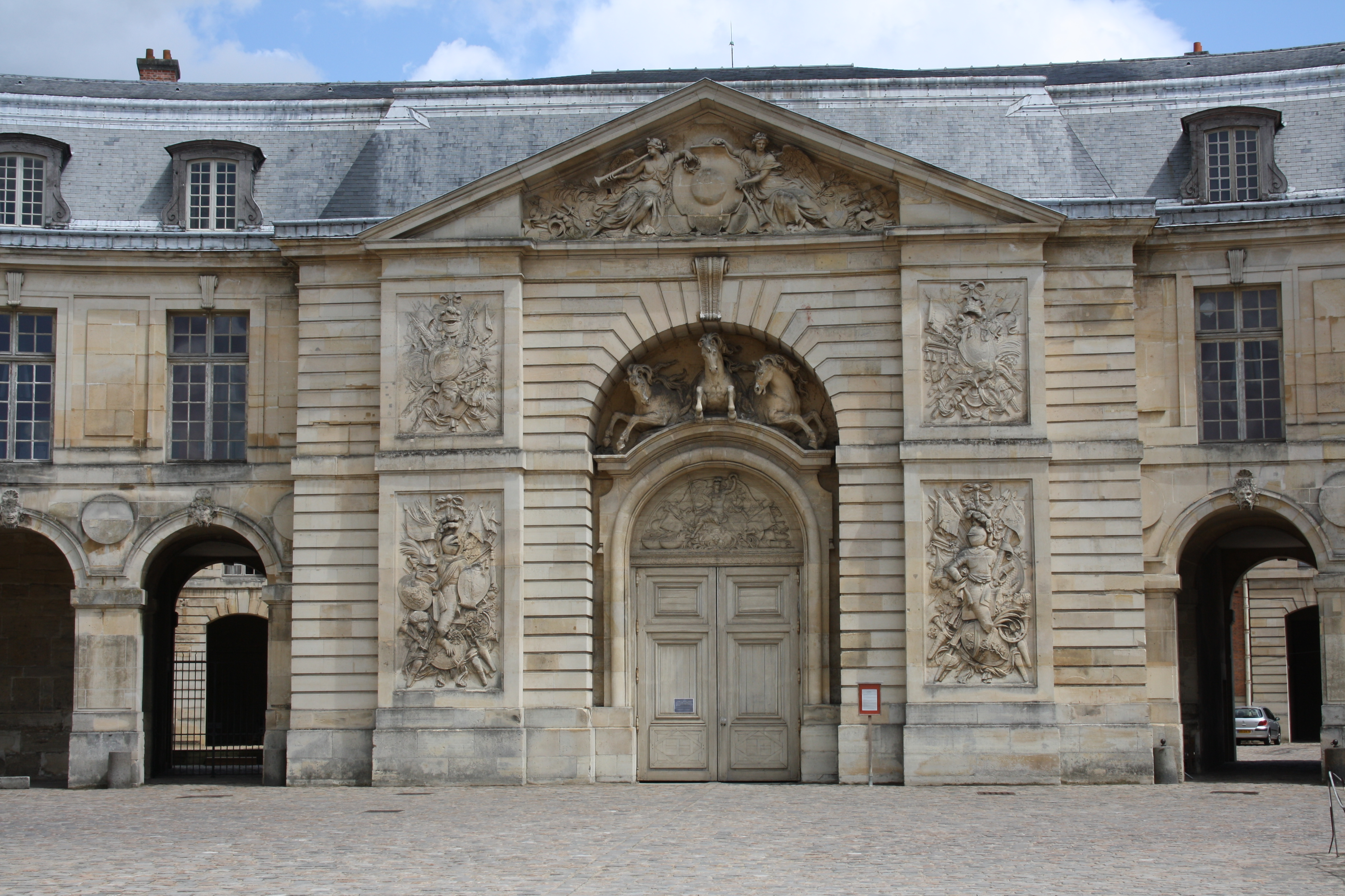 Grande Écurie is the main stable of the Palace of Versailles in Versailles, France